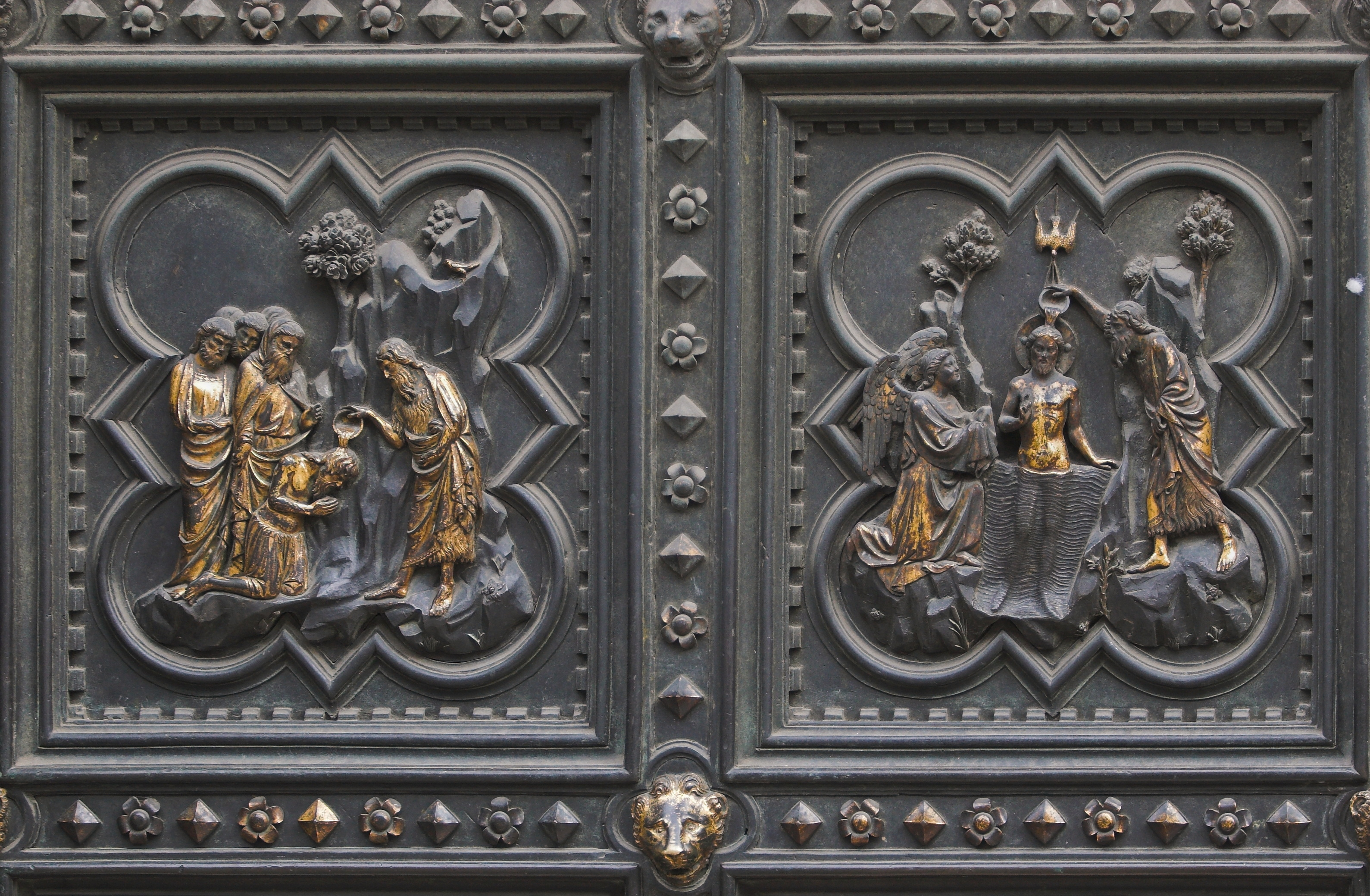 Detail of the Pisano's doors.